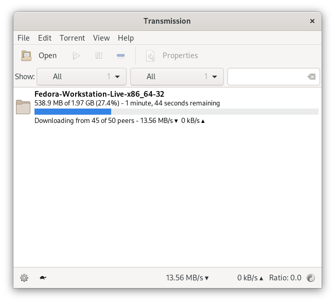 A screenshot of Transmission 2.94 (d8e60ee44f) running on Fedora 32 with an active download in progress